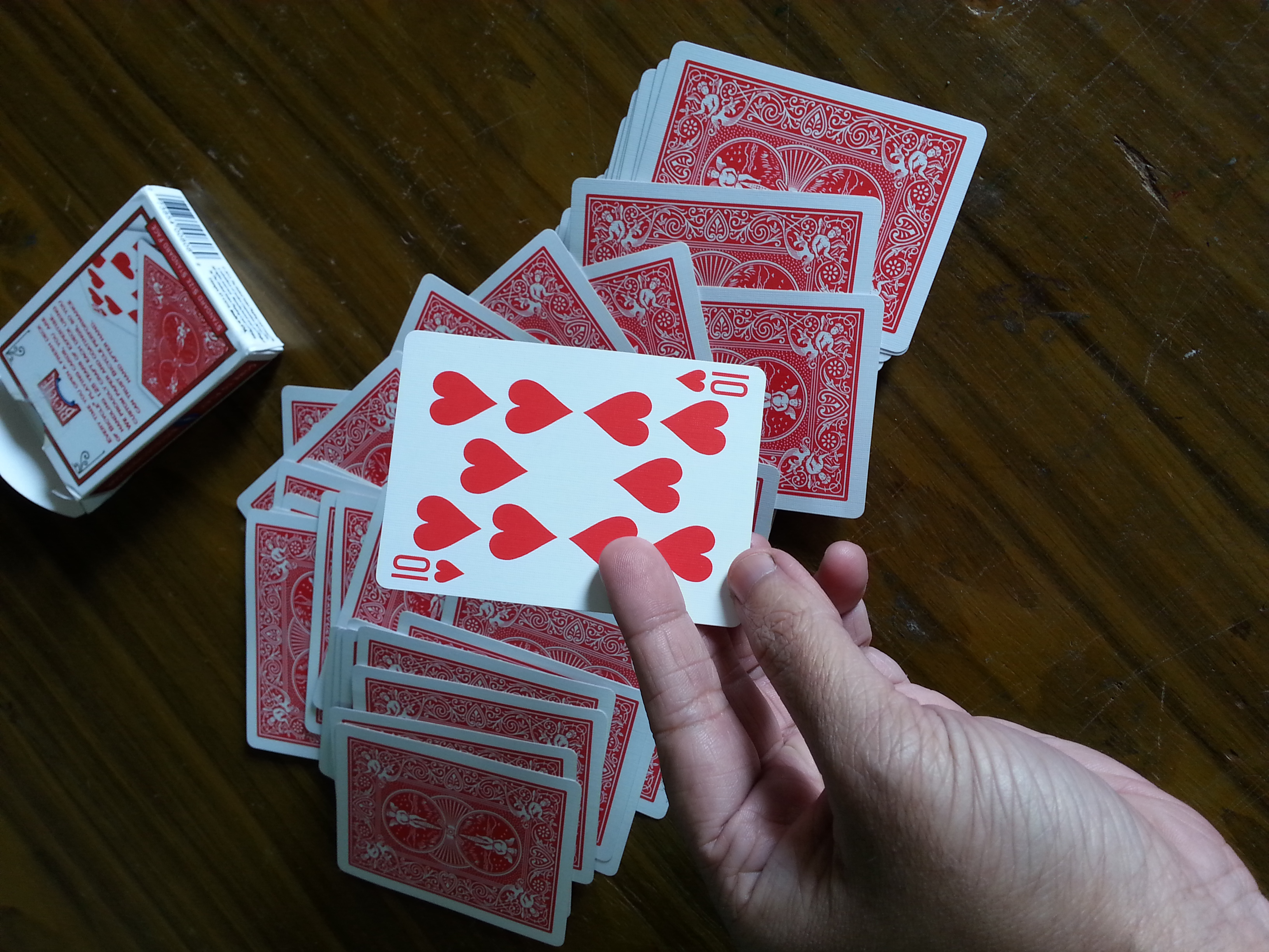 My Bicycle card deck